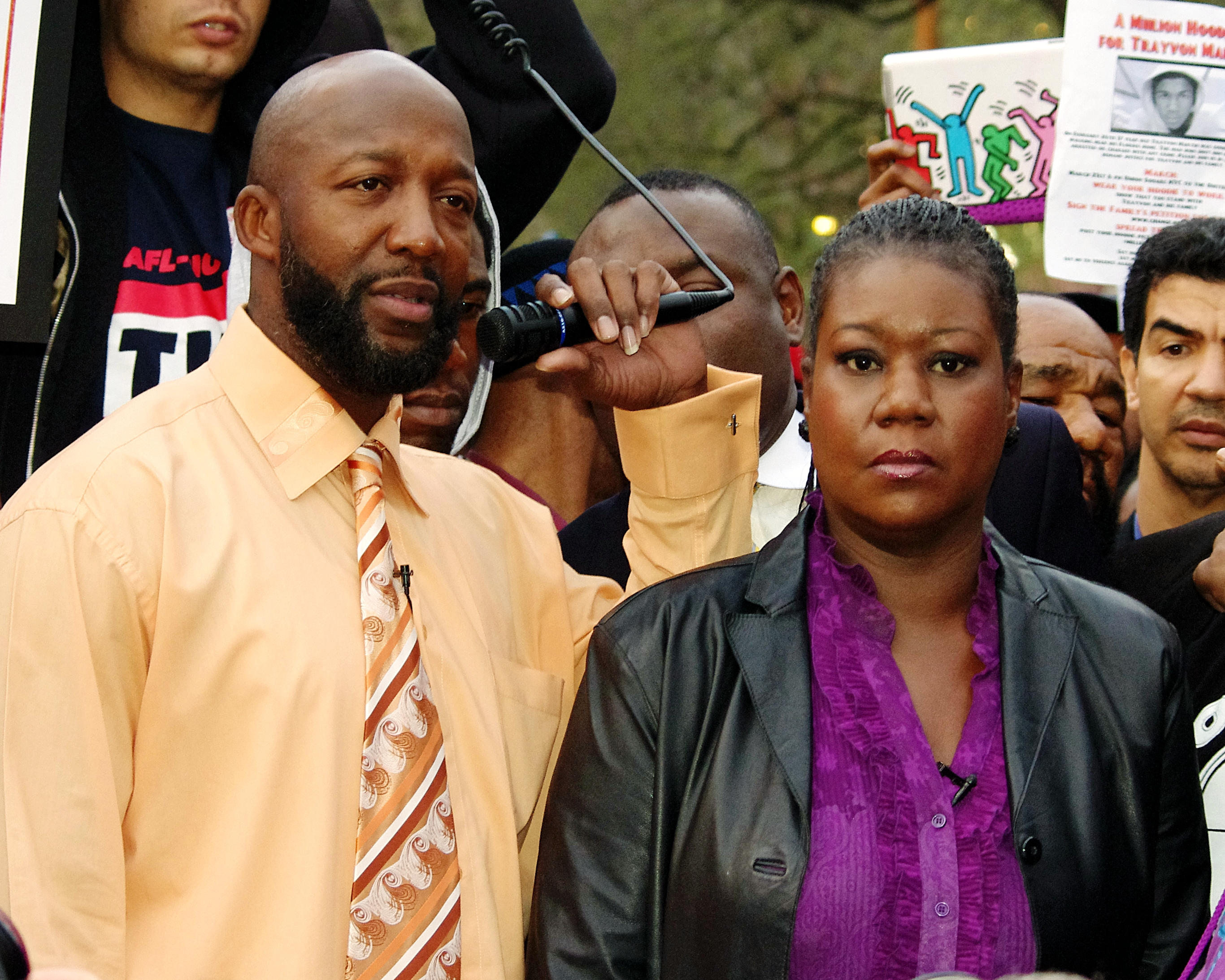 Trayvon Martin's father Tracy Martin and his mother Sabrina Fulton at the Union Square protest against Trayvon's shooting death.